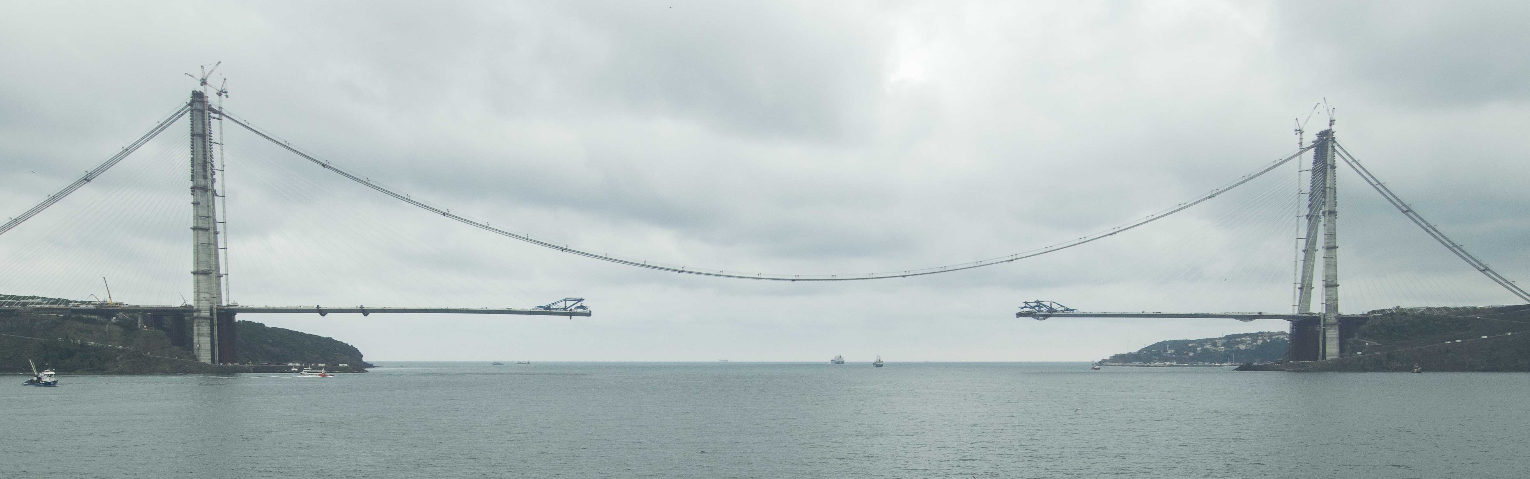 The Yavuz Sultan Selim Bridge, Turkey, under construction on 6 October 2015.